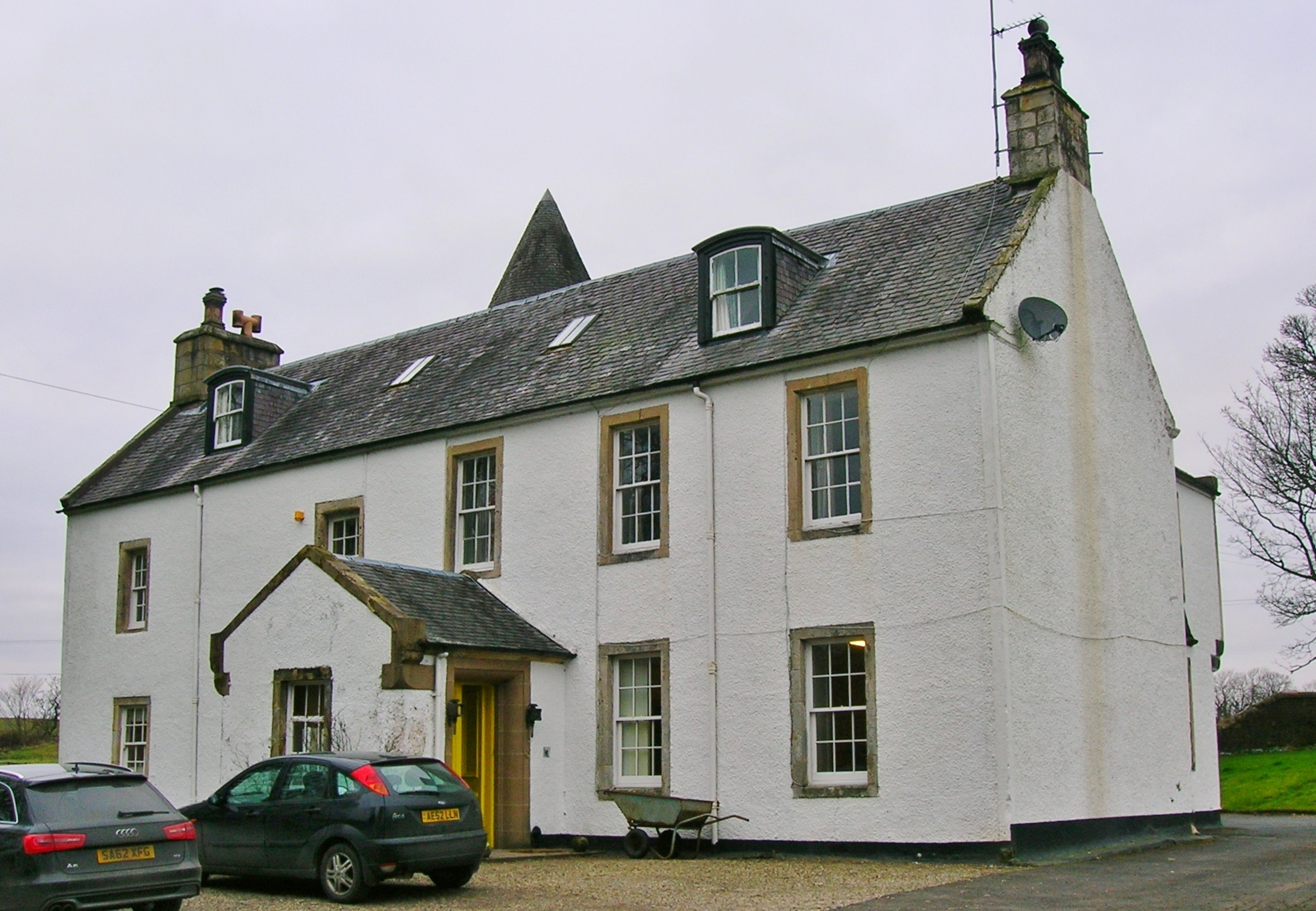 Monkredding House, view from the east, Kilwinning, North Ayrshire, Scotland